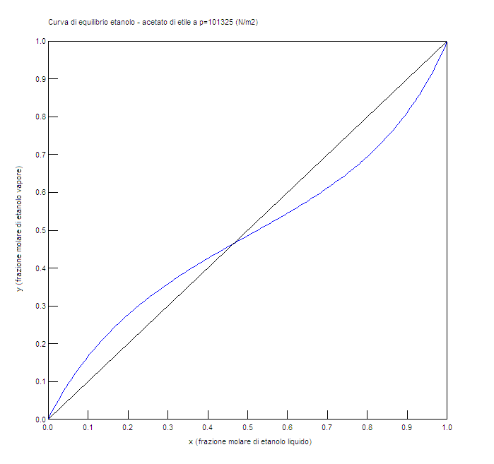 Ethanol - ethyl acetate azeotrope, x-y equilibrium curve @ p=101325 Pa